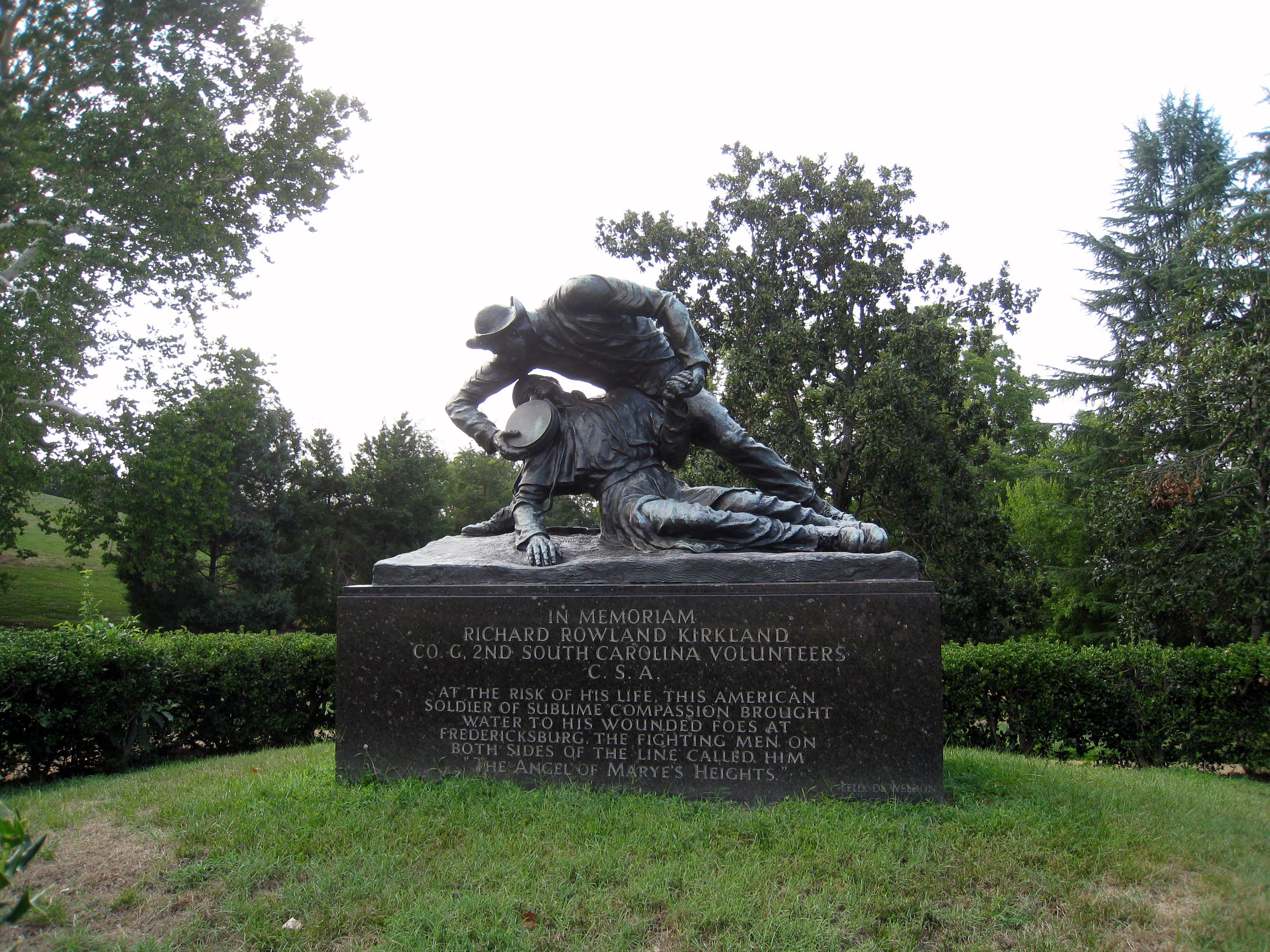 Monument honoring Richard Rowland Kirkland in the Fredericksburg and Spotsylvania National Military Park honoring his bravery and humanitarian actions during the Battle of Fredericksburg. The monument was crafted by Felix de Weldon (dedicated 1965) and was placed on land previously owned by Mary Washington College. The land was later transferred to the National Park Service in 1987.